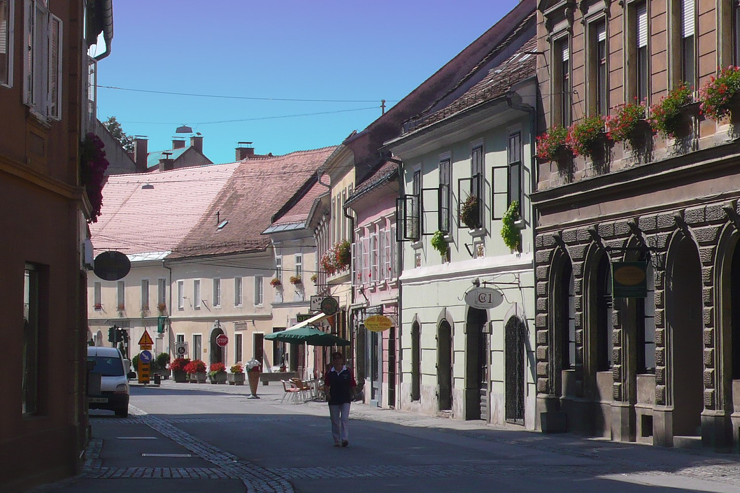 Historic city center of Ptuj, Slovenia